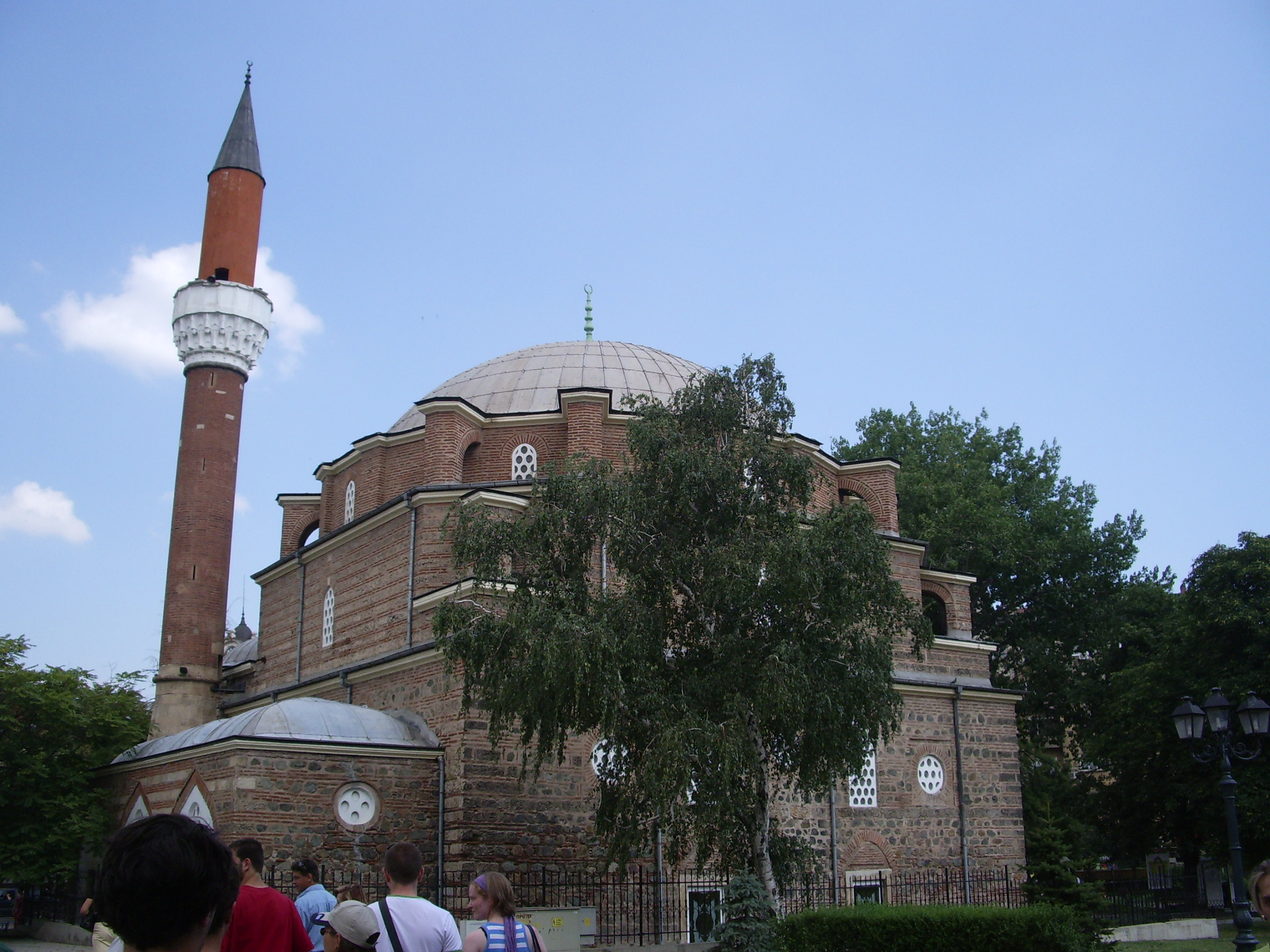 During Ottoman times there were over a hundred mosques in Sofia. Now there is only one operating mosque, as well as two other surviving building which were built as mosques, one of which is now a church, and the other is now a museum.